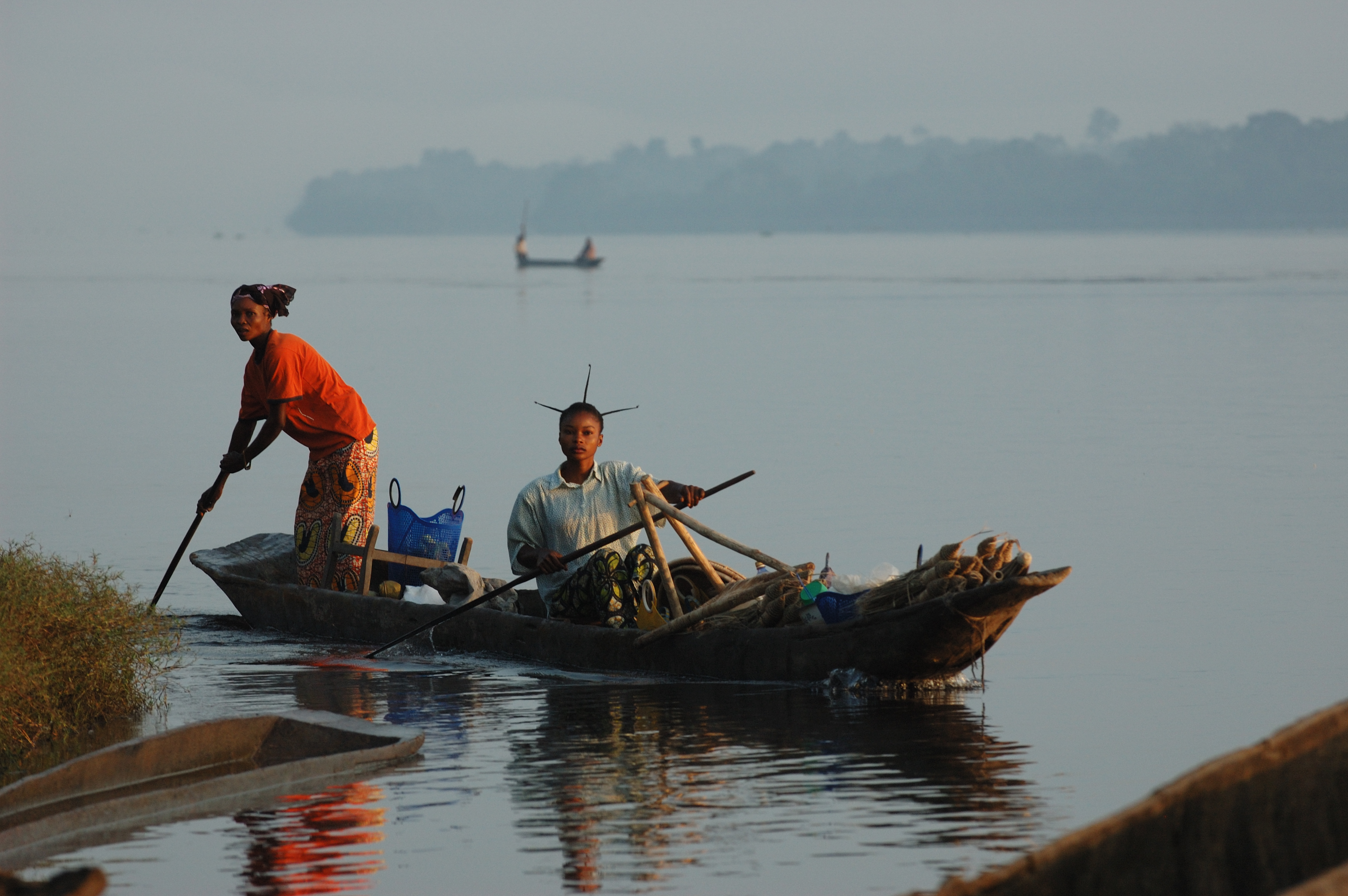 People live along and on the Congo river. The zone can only be reached by boat or motorcycle. The main source of livelihood for its 115,000 people is in order fishing, agriculture and further inland hunting. Of these some 35,000 people are semi nomadic; whole families go for between two to six months either by pirogue up the small tributaries for fishing or into the forest for hunting. During this time they only remerge for funerals. In addition to the population of the health zone a further 10,000 people live on boats or in temporary dwellings on the hundred or so islands in the middle of the river. They are not indigenous to the zone and hail from either Province d’Equateur or the zone of Isangi. There are no schools, health centres or posts on these islands and they are not covered by the regular activities of the health zones.